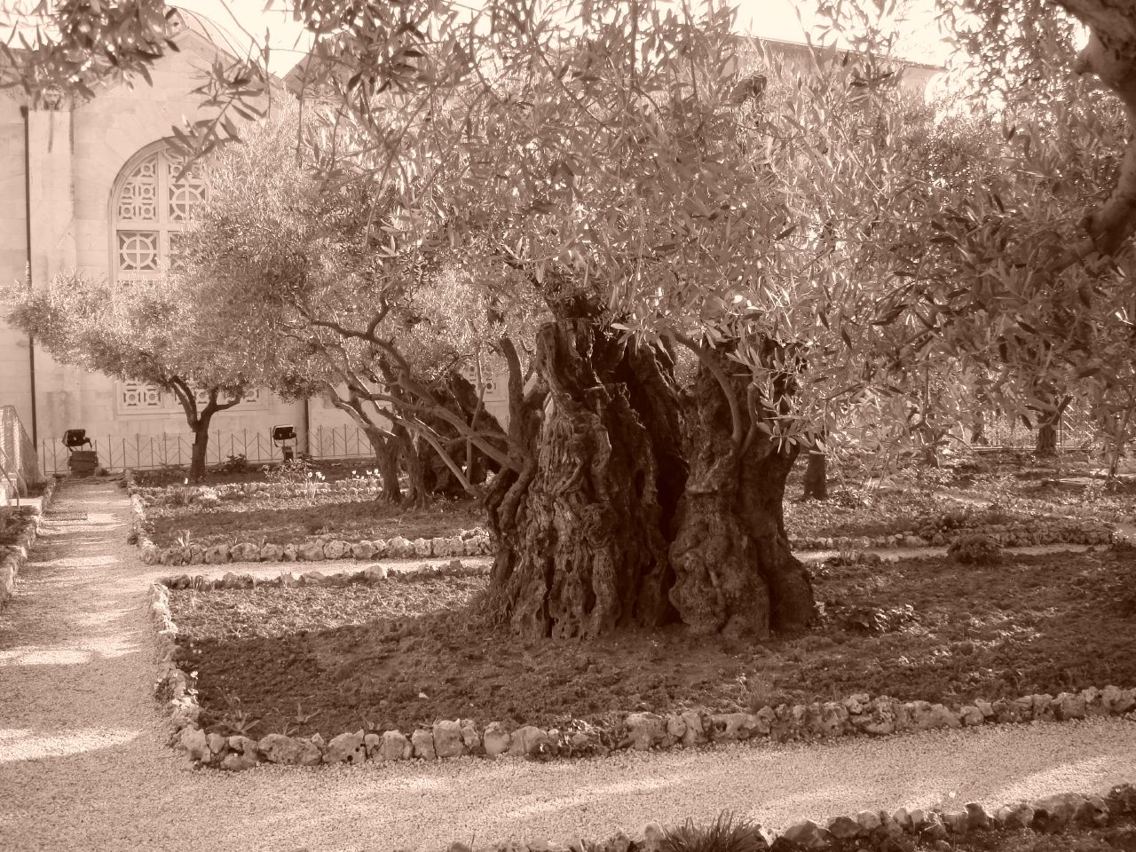 This olive tree on the mount of olives is reported to be around 2000 years old.